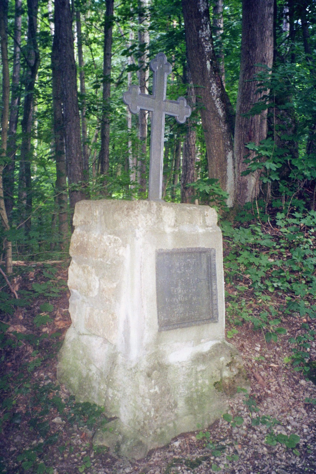 Monument for Major Ysenburg, who died in the "Deutscher Krieg" in the battle of Bad Kissingen. The monument is located in Bad Kissingen near the Stations of the Cross at the "Stationsberg".